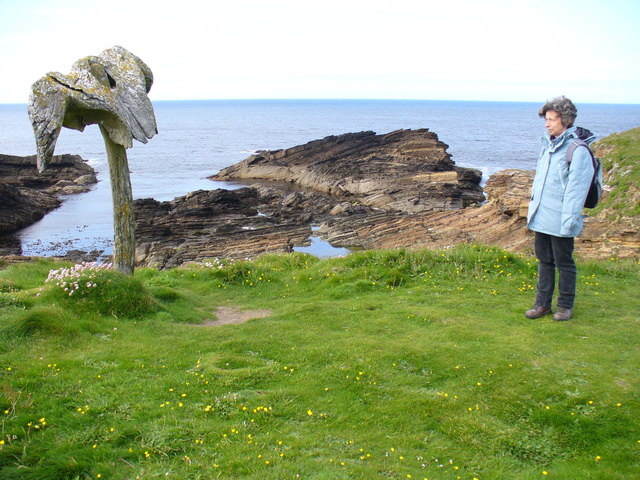 Whalebone by Skipi Geo There are several such bones on display in Orkney, eg on a shop wall in Stromness. In the background are the ubiquitous sloping old red slabs on the foreshore.